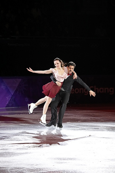 Gala exhibition at the 2018 Winter Olympics